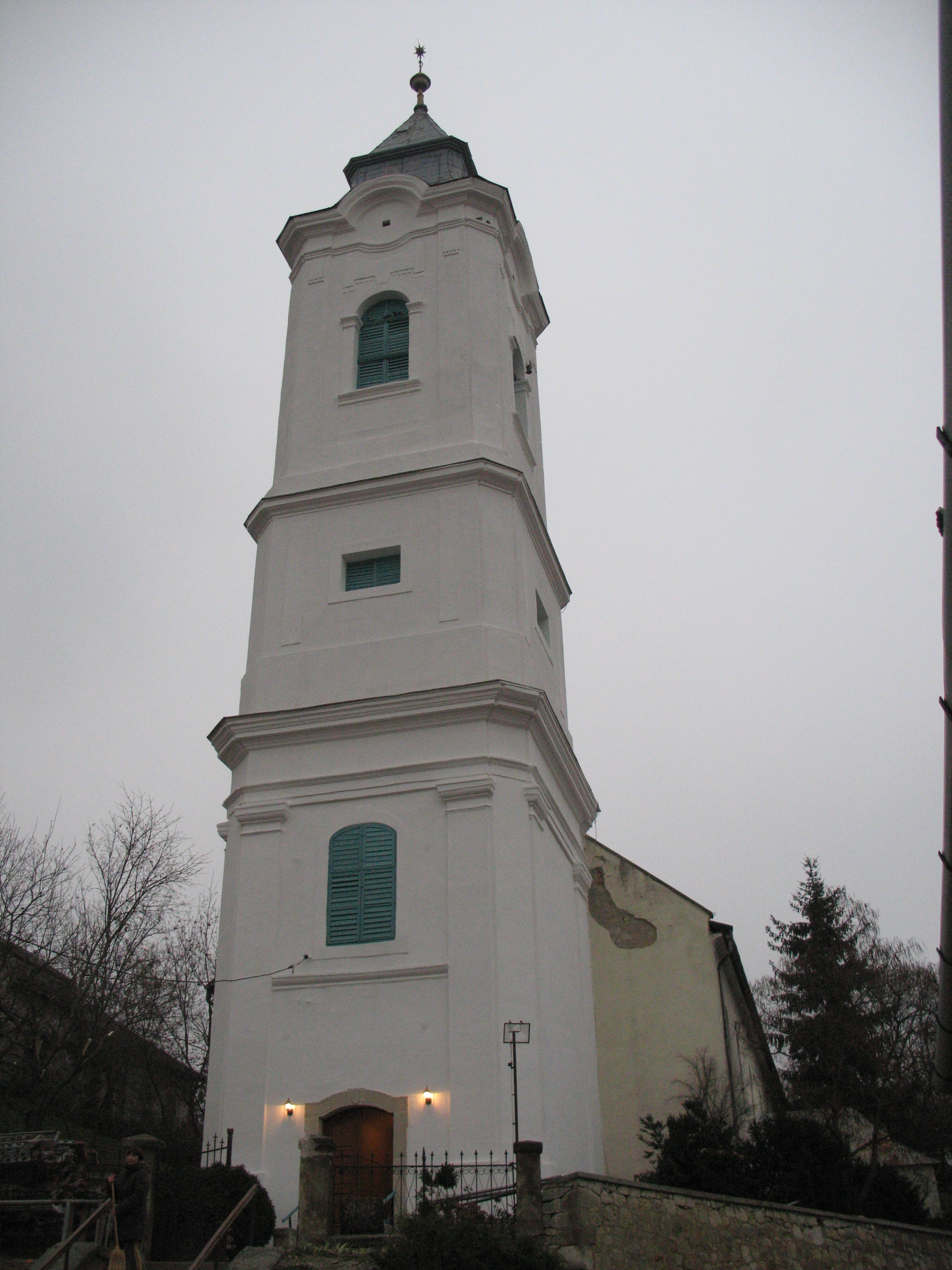 Reformed church in Tarcal, Hungary